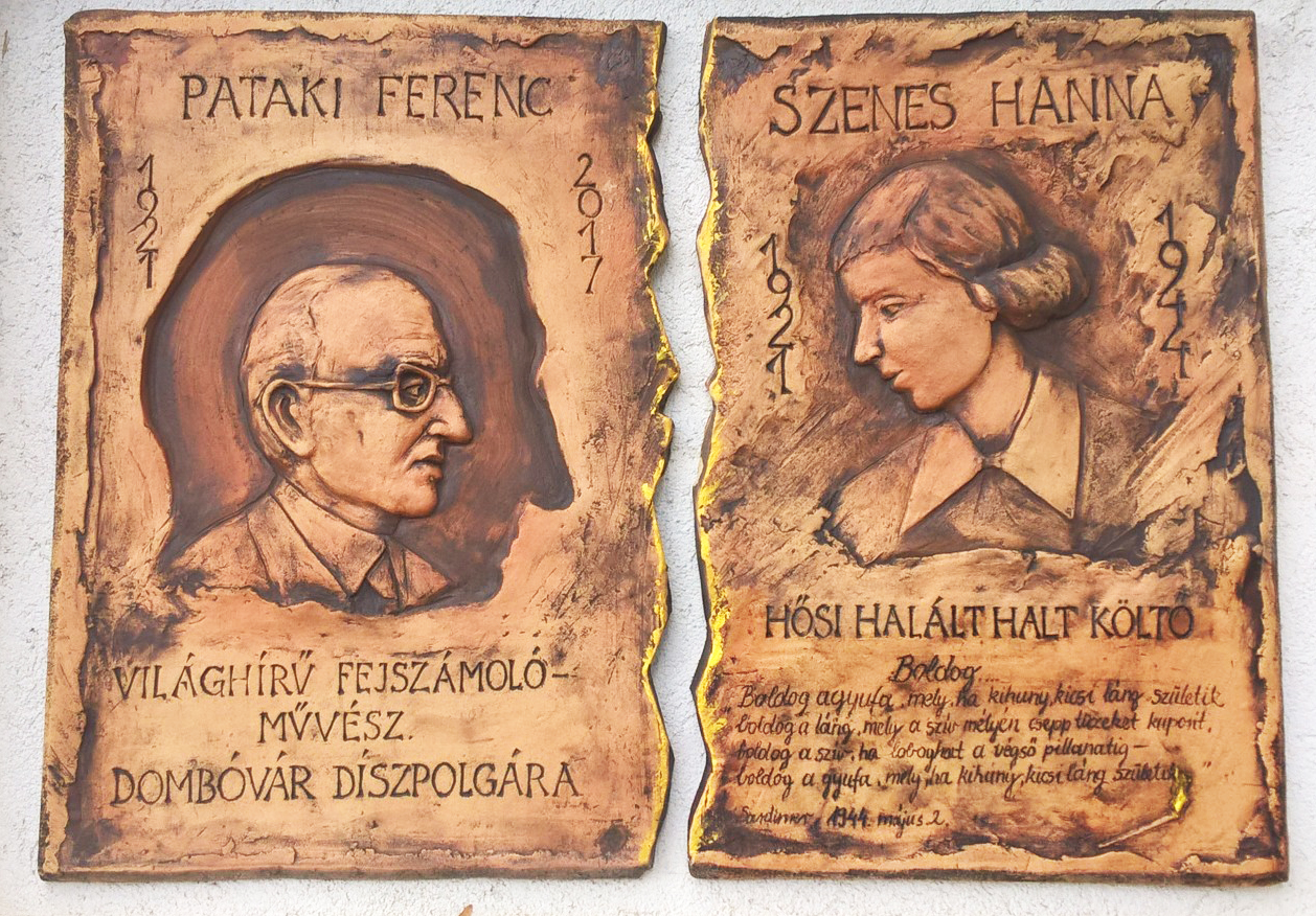 Pataki Ferenc és Szenes Hanna domborműve Dombóváron